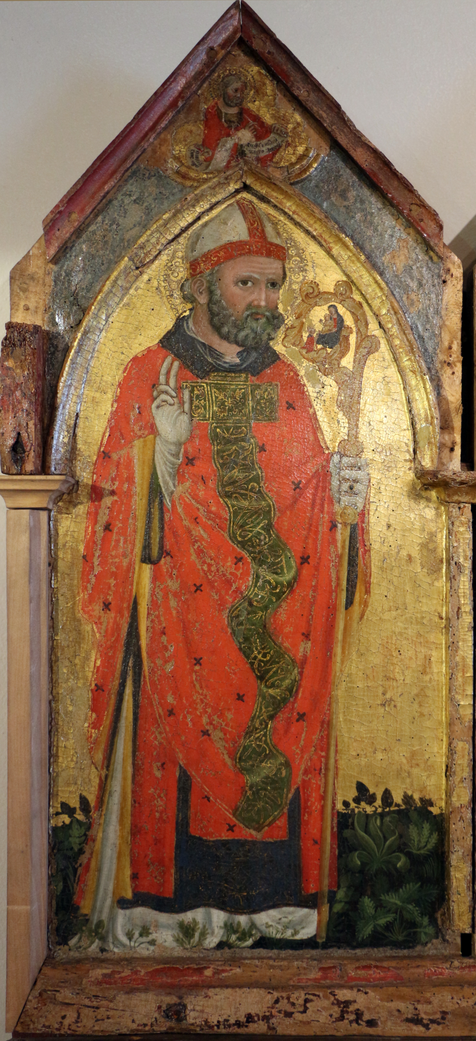 Paintings in the Museo Civico (Gualdo Tadino)